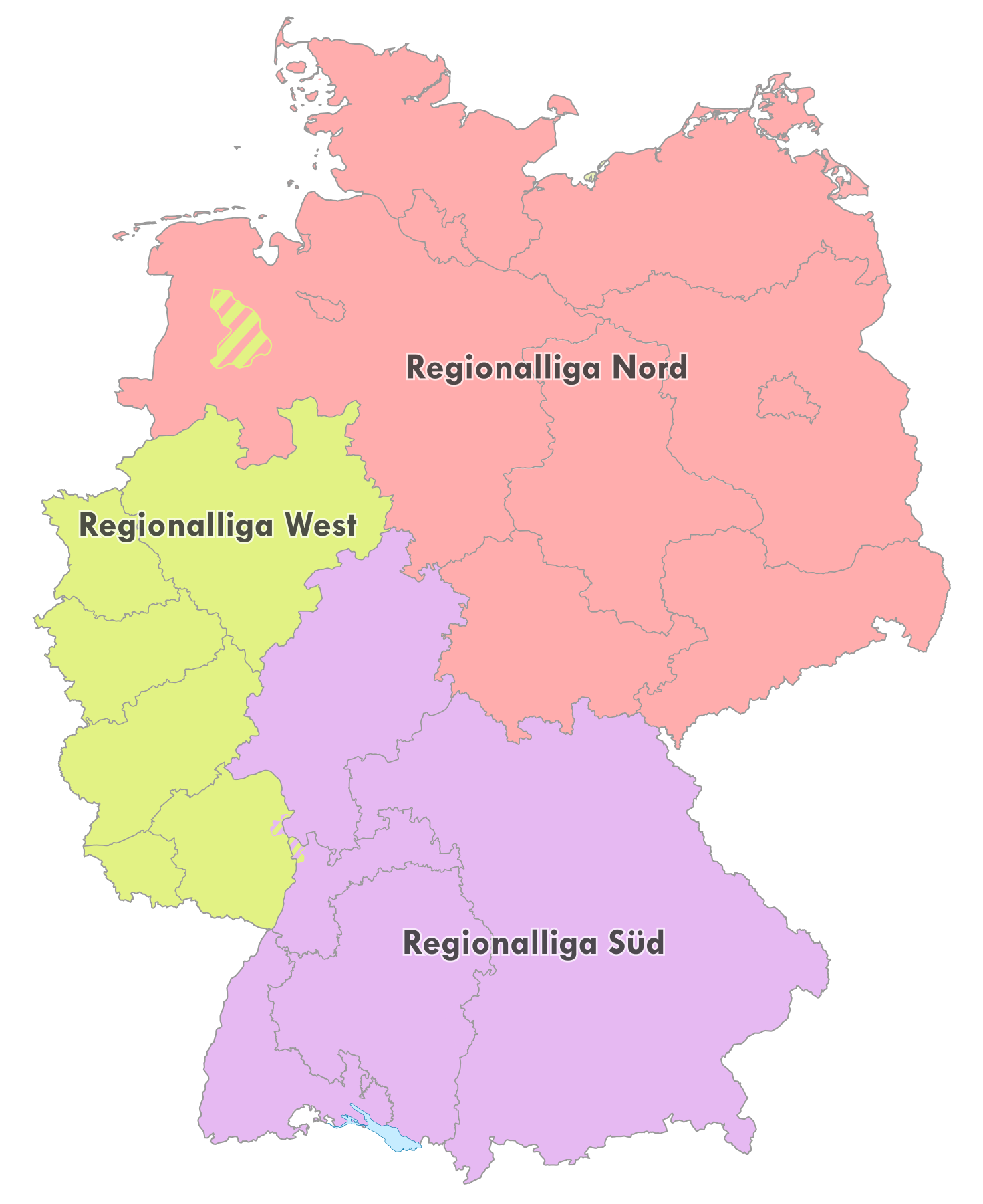 Map of German Soccer Regionalliga, 2008-2012